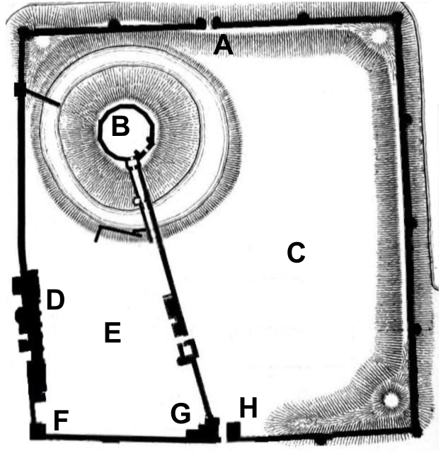 Plan of Cardiff Castle. Original by John Ward, edited by hchc2009 after Hard (2009) Archaeological watching brief.